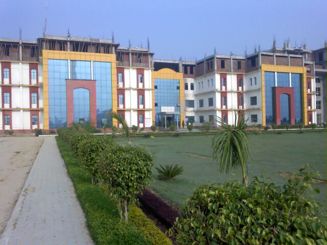 This is the image of VIT Meerut main Campus.